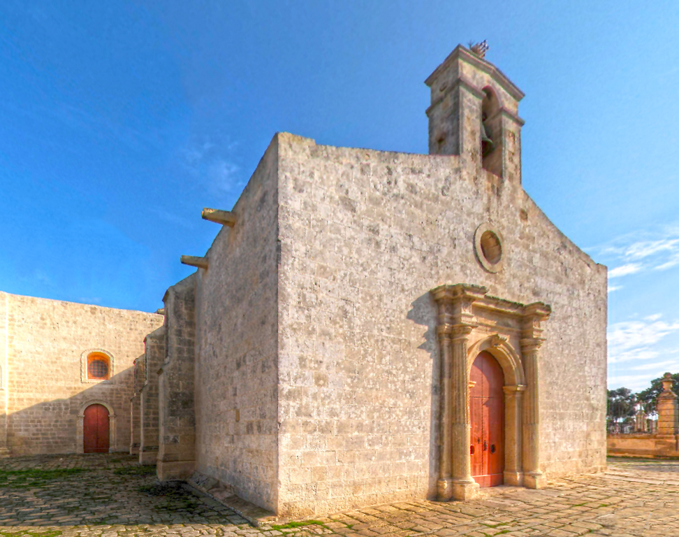 Facade of Chapel of St Gregory, Zejtun